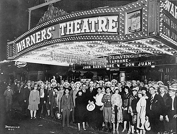 First-nighters posing for the camera outside the Warners' Theater before the premiere of "Don Juan" with John Barrymore